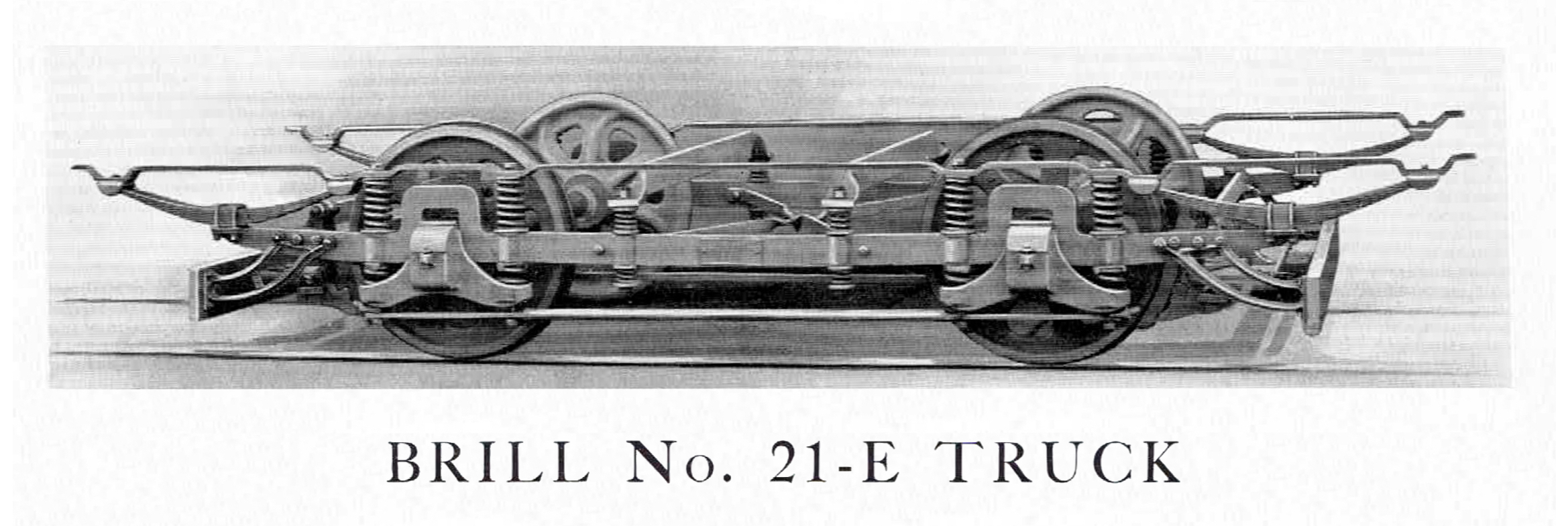 Drawing of a 21-E streetcar truck manufactured by The J.G. Brill Company, Philadelphia, USA, from the company’s 1913 'City and interurban trucks' catalogue no. 206, page 10.